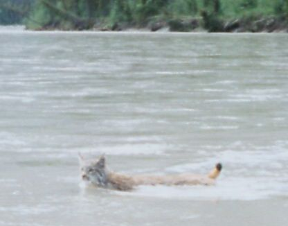 The following is the author's description of the photograph quoted directly from the photograph's Flickr page."Who says cats don't swim? This green-eyed lynx just walked out of the trees and jumped in. North Nahanni River, Mackenzie Mountains, Northwest Territories, CanadaPostscript Note: scanned from fried film, MUCH better job reposted as 'Lynx2'. "